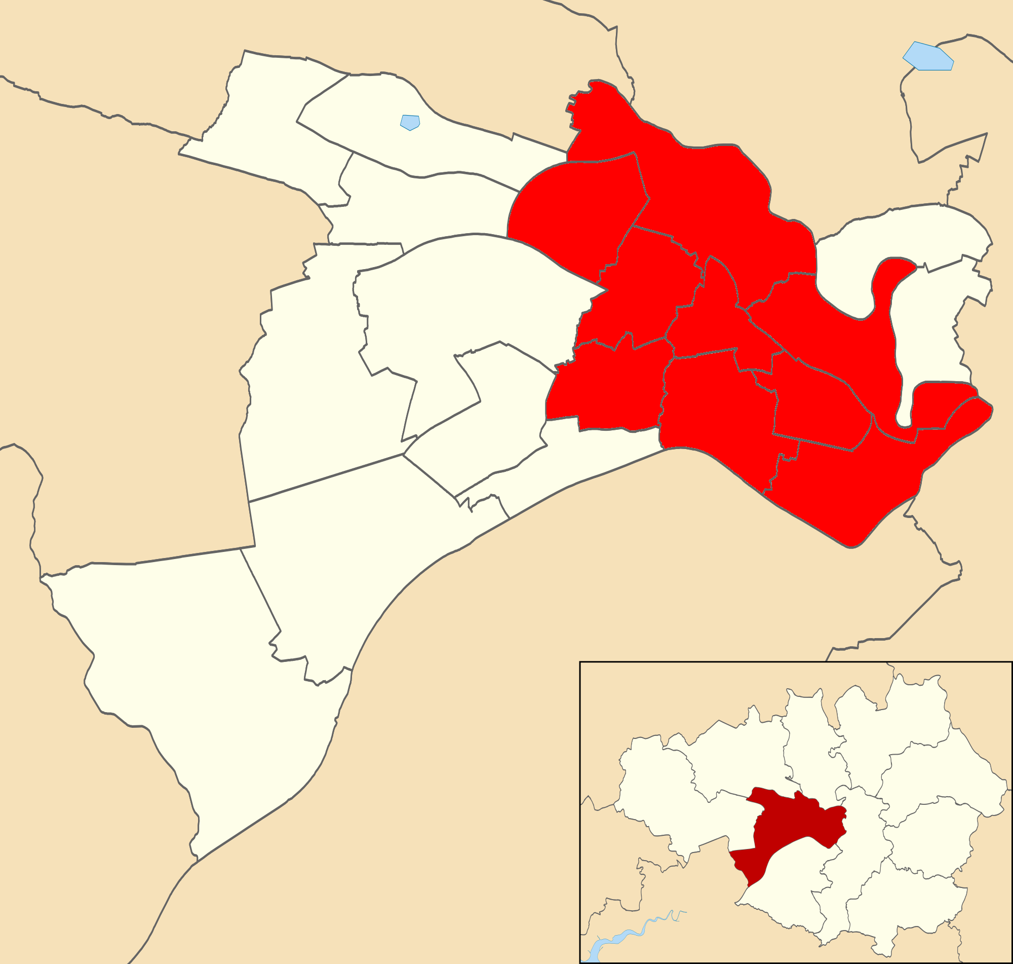 Map showing location of Salford and Eccles (UK Parliament constituency) with wards on Salford City Council.